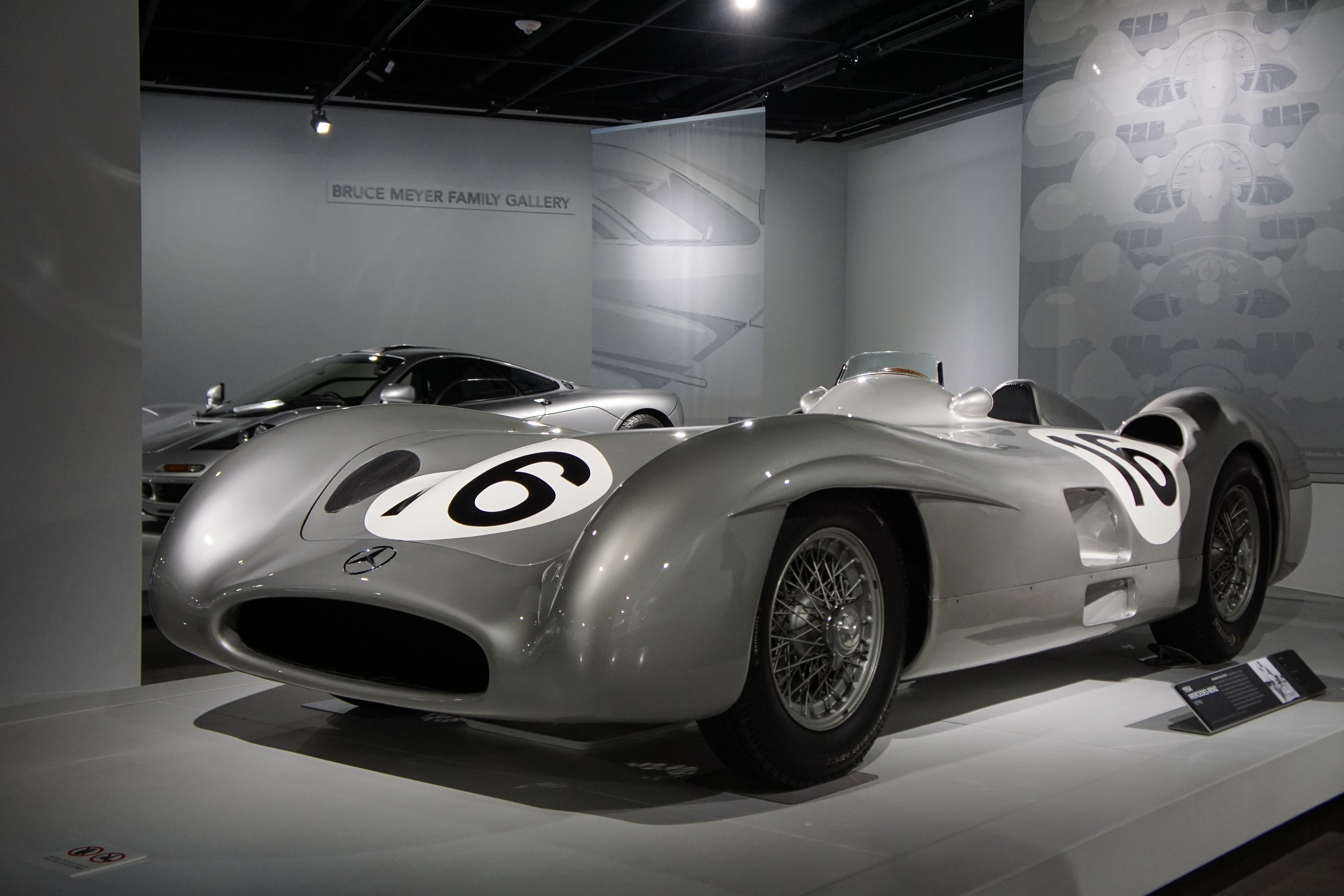 Petersen Automobile Museum Wilshire Blvd Los Angeles California